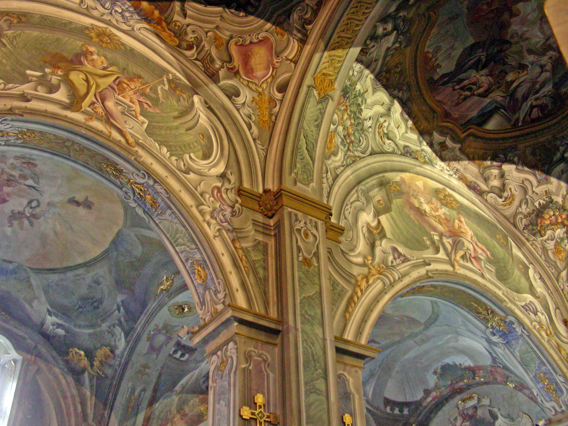 Italy, Lombardy, Monza, cathedral, interior, frescos